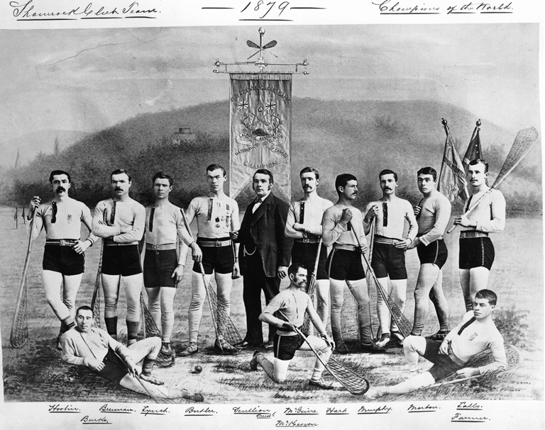 Shamrock Club lacrosse team, Champions of the World, composite, 1879